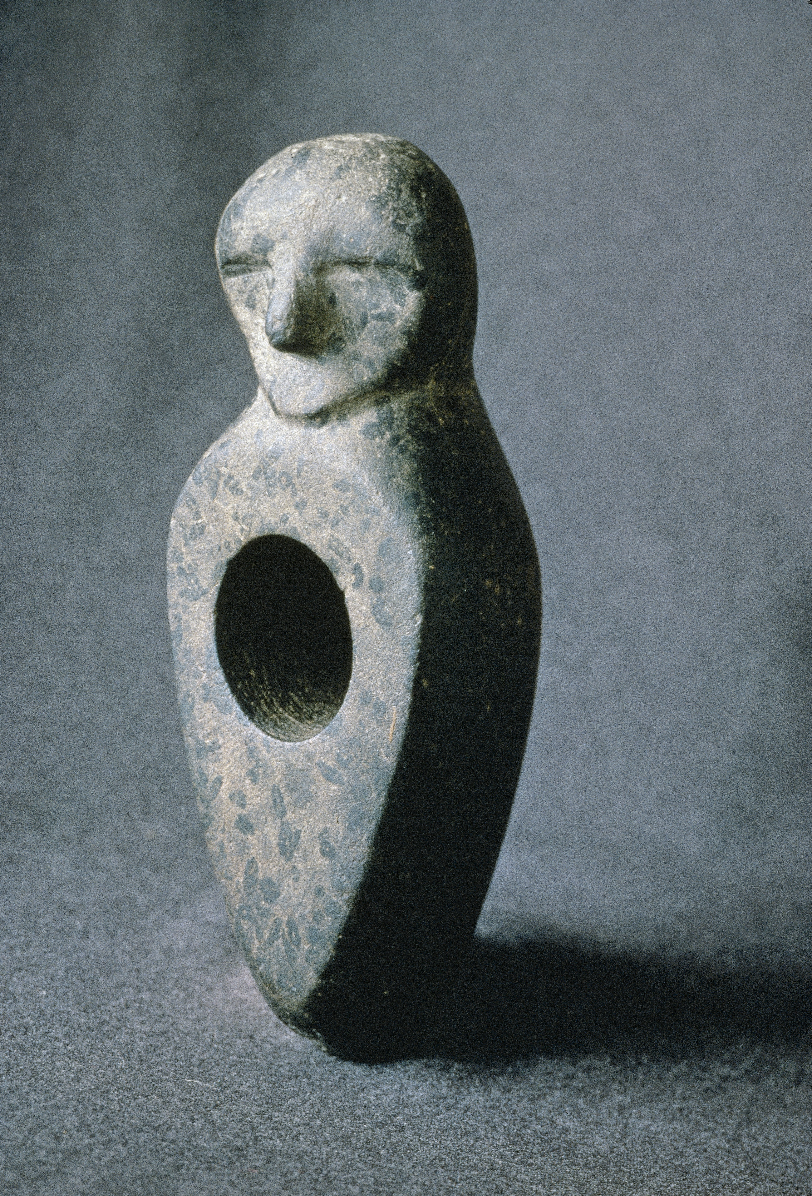 Stoneage stone axe found from Kiuruvesi, Finland.